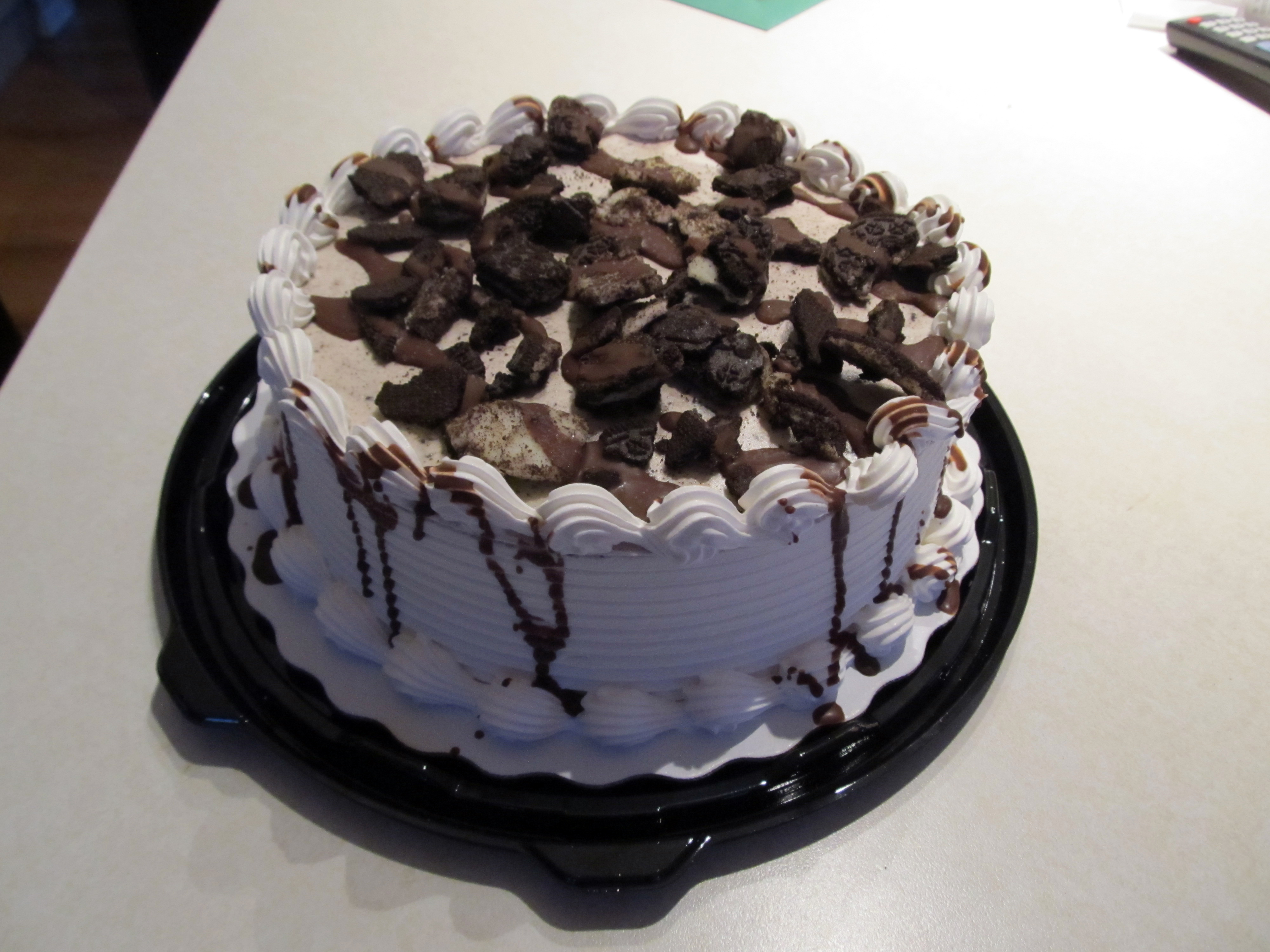 Todd bought this Dairy Queen Oreo ice cream cake for my birthday. It lasted a week.